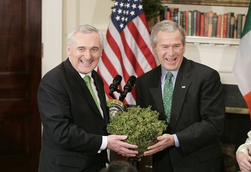 United States President George W. Bush accepts a bowl of shamrock from Taoiseach Bertie Ahern during the annual Saint Patrick's Day Shamrock Ceremony in the Roosevelt Room at the White House, March 17, 2005. Both of them are wearing green ties, a colour associated with Ireland.